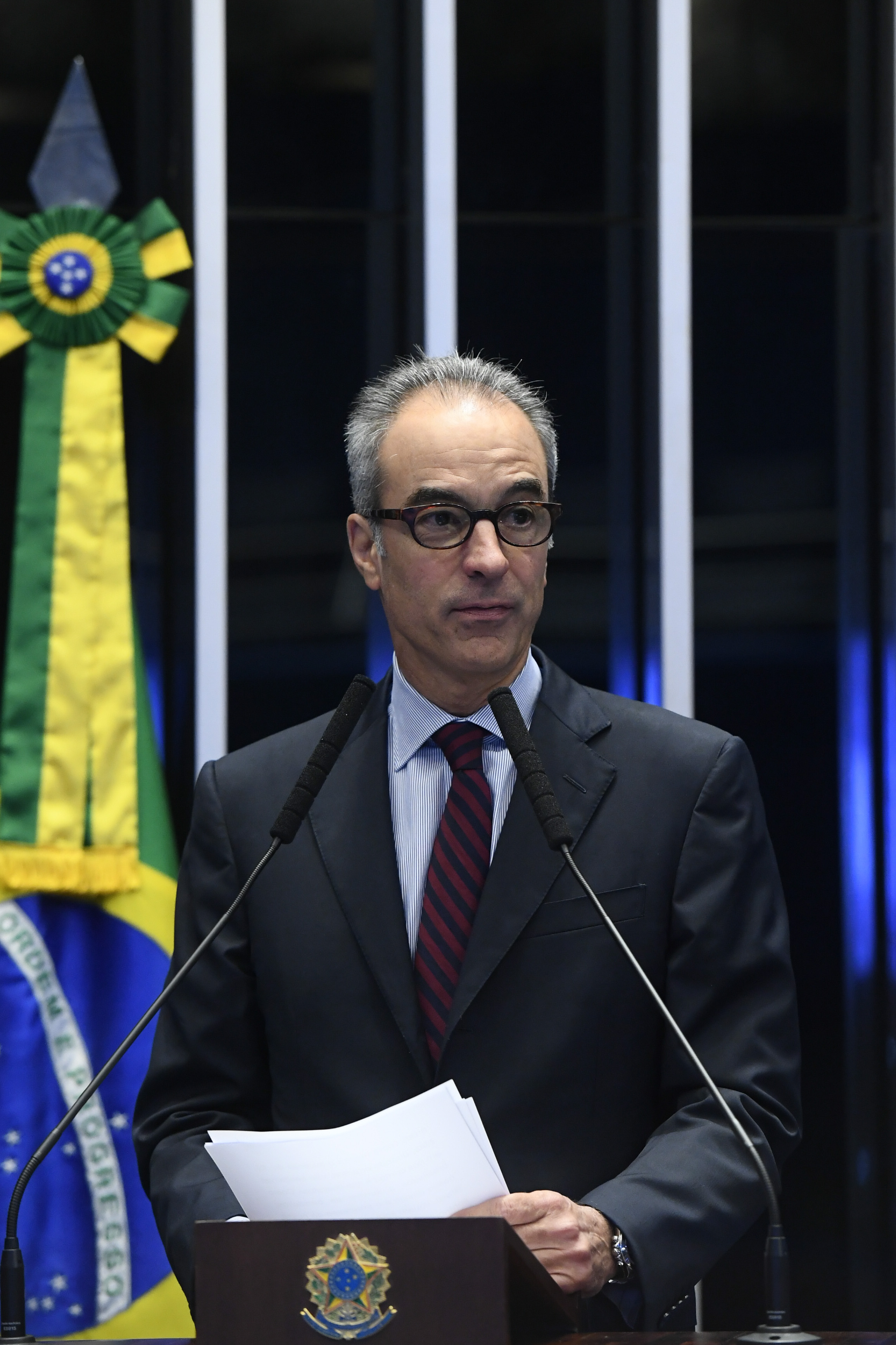 Plenário do Senado Federal durante sessão especial destinada a comemorar os 50 anos do Jornal Nacional. Em discurso, à tribuna, vice-presidente do Conselho de Administração e presidente do Conselho Editorial e do Comitê Institucional do Grupo Globo, João Roberto Marinho. Foto: Marcos Oliveira/Agência Senado